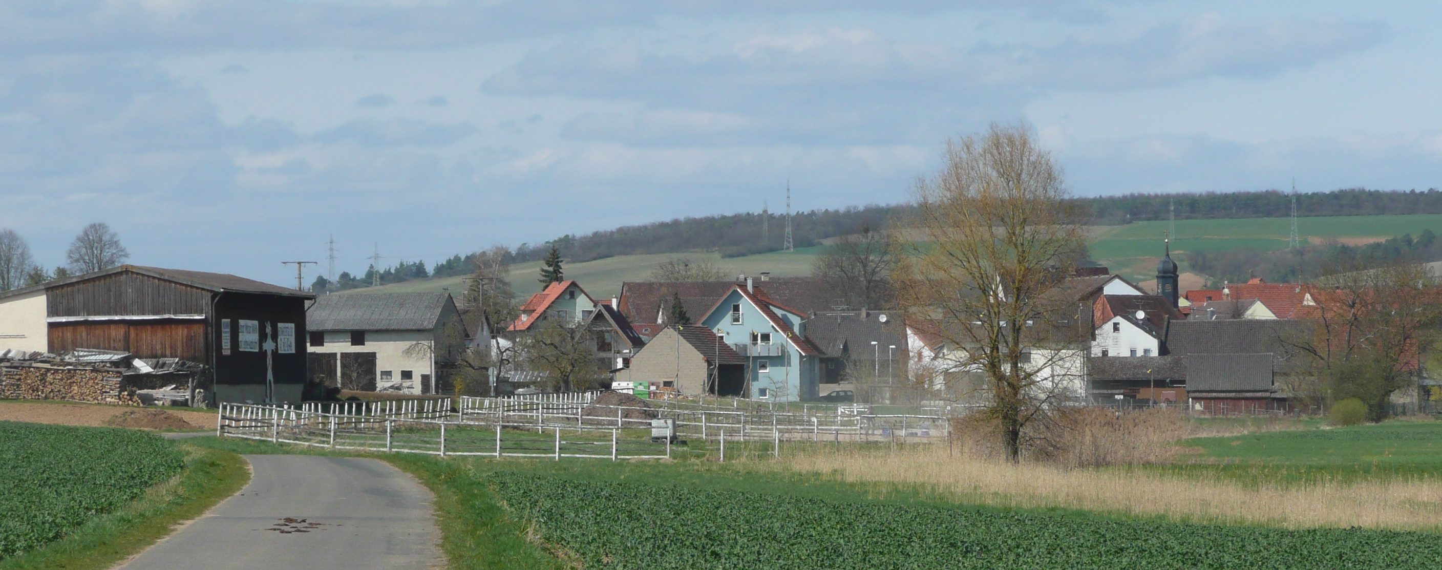 View of Mädelhofen, a quarter of Waldbüttelbrunn.